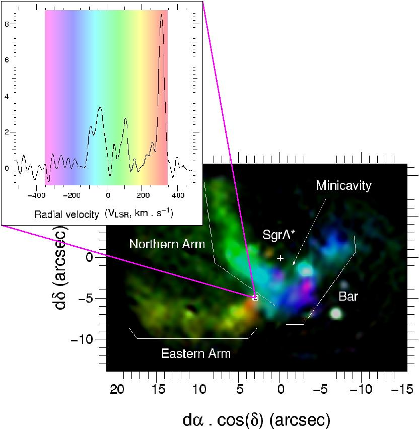 The Sagittarius A West complex of ionized gas here observed in the Bracket gamma line of ionized Hydrogen) has the apparent shape of a three-arm spiral. The image above was produced using data obtained with the BEAR spectro-imager on the Canada-France-Hawaii Telescope. The color shades represent different radial velocities, explicited on the spectrum in the upper-left inset, which corresponds to the selected pixel.